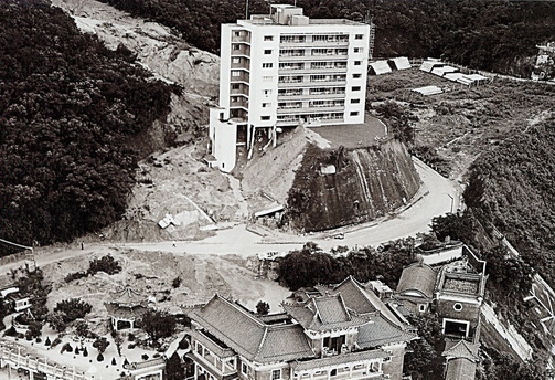 June 12 floods in 1966, Hong Kong.